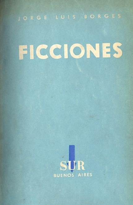 The book "Ficciones" by J.L.B